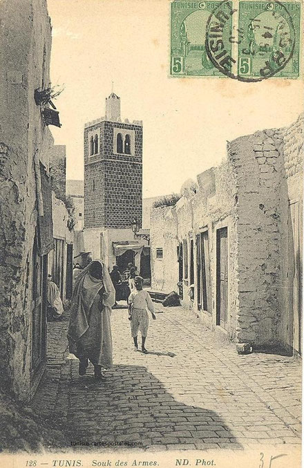 Old postcard showing the souk of arms